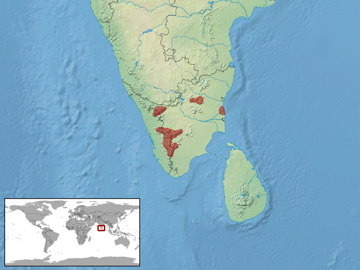 geographic distribution of Hemiphyllodactylus aurantiacus (Native: India)